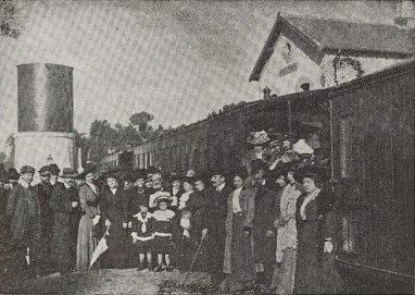 Inauguration of the section between Espinho and Oliveira de Azeméis of the Vouga Railway, in Portugal, on the 21st December 1908. This photograph was published on the Gazeta dos Caminhos de Ferro magazine no. 1912, of the 16th August 1967, and scanned by the Hemeroteca Municipal de Lisboa.